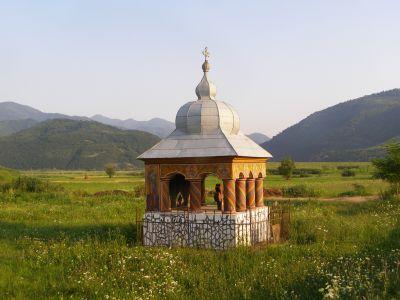 An Orthodox road chapel in Transylvania, Romania